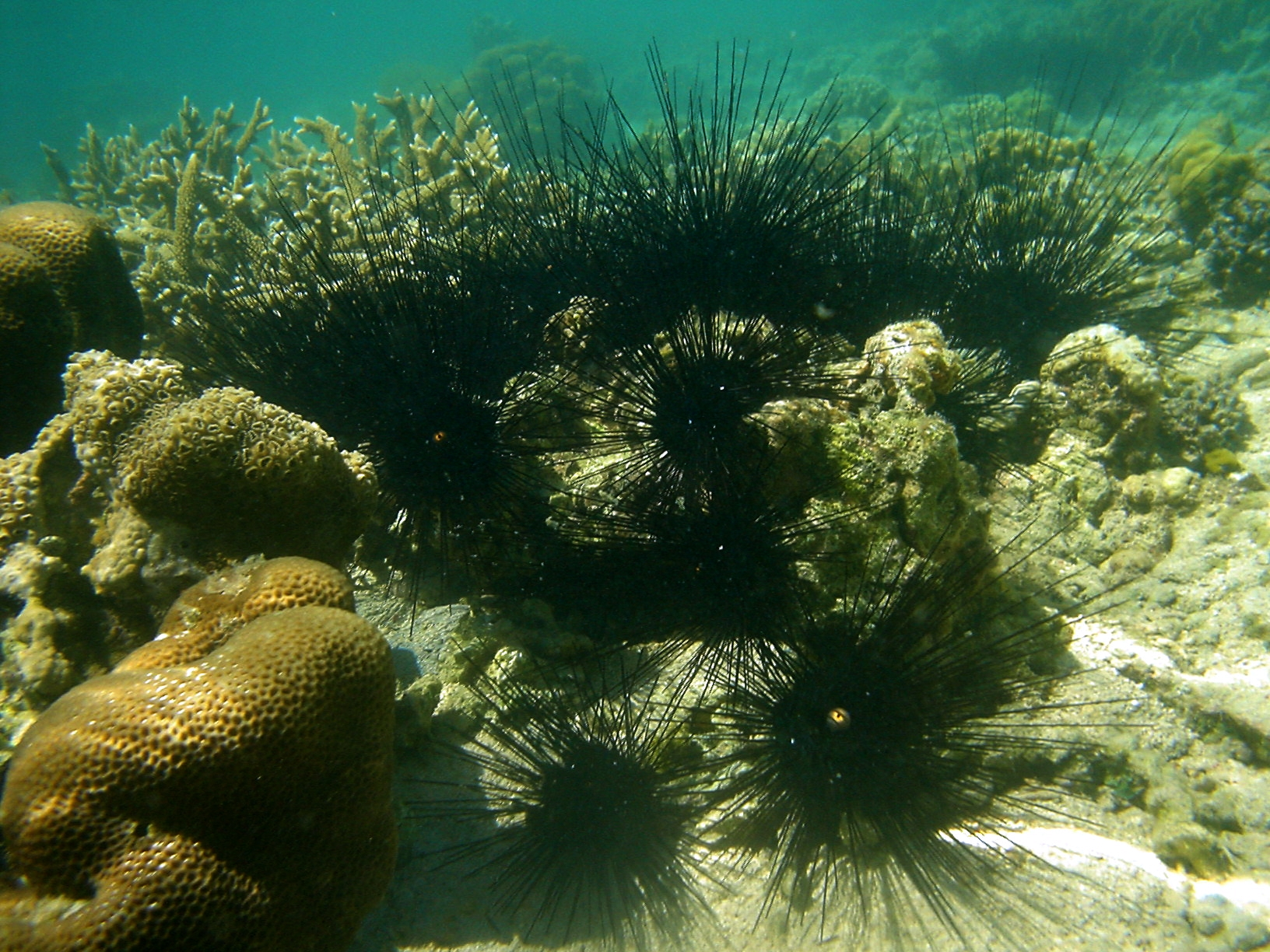 Most of the time diadem sea urchins (Diadema setosum) live in communities. The picture was taken at Madagascar.